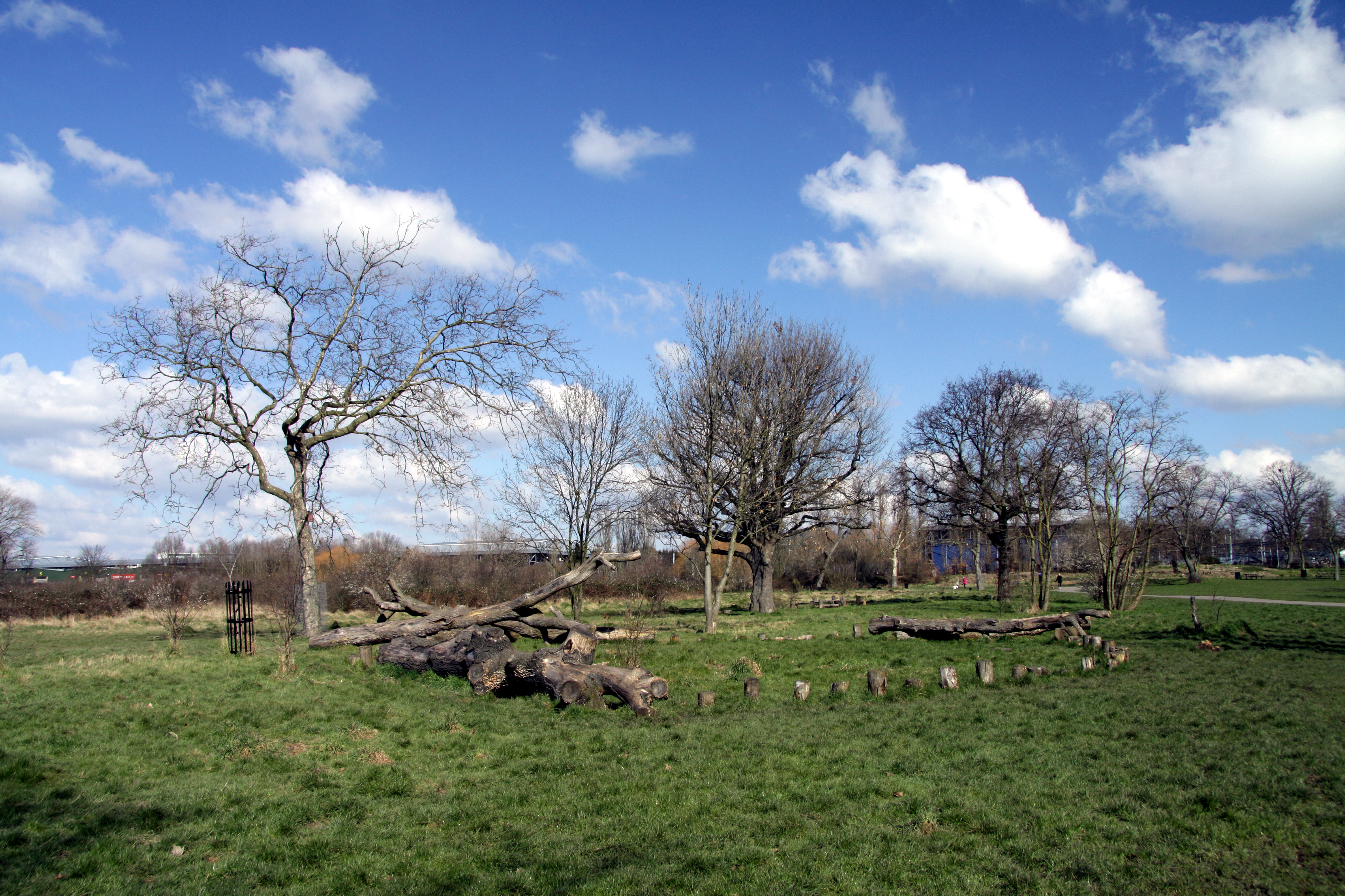 Park Little Wormwood Scrubs in London, England, Great Britain.